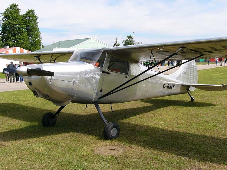 Cessna 170C (C-GHFK)